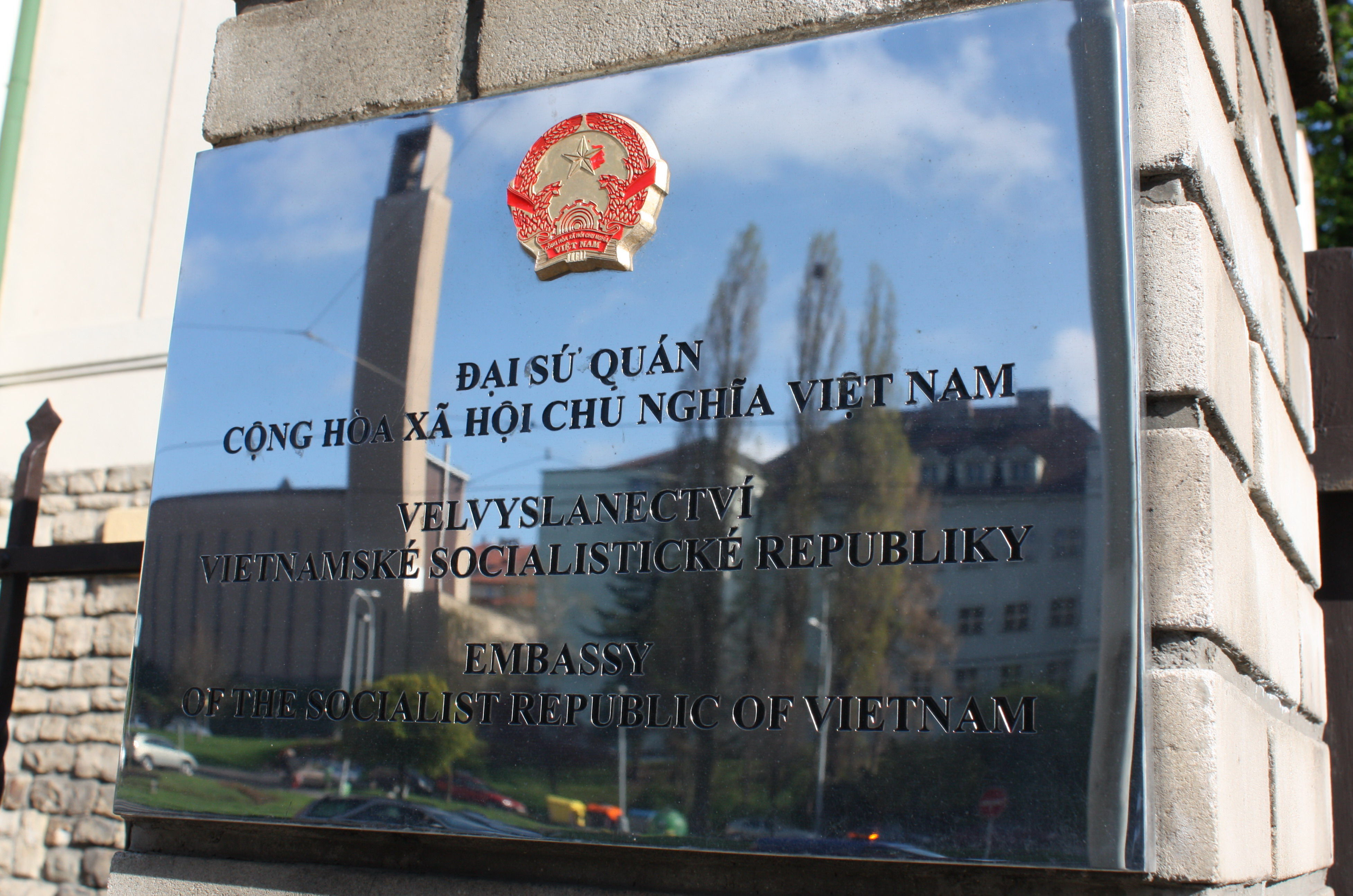 Coats of arms on Vietnamese Embassy in Prague.